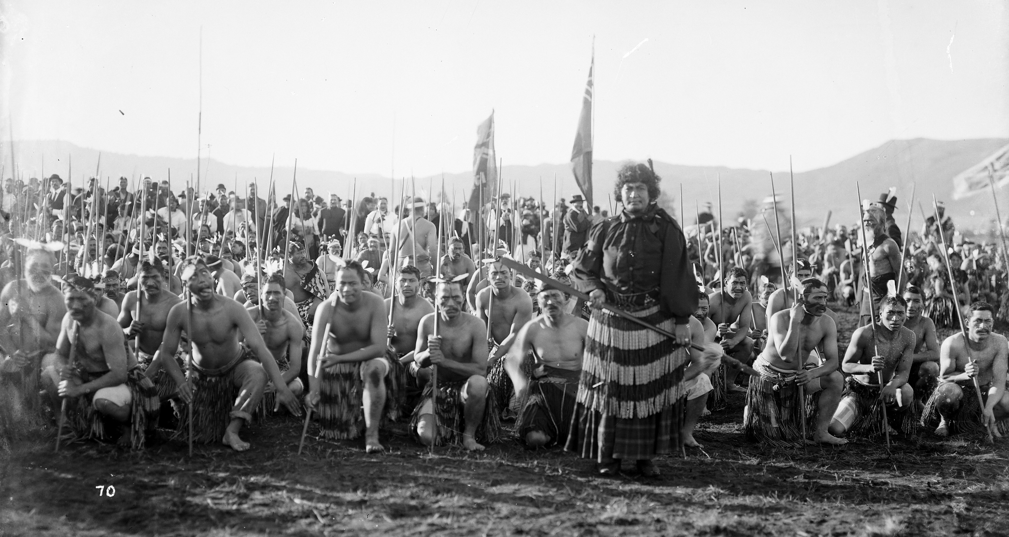 A haka party waiting to perform for the Duke and Duchess of York and Cornwall at Rotorua in 1901. (The Duke was later crowned as George V.)